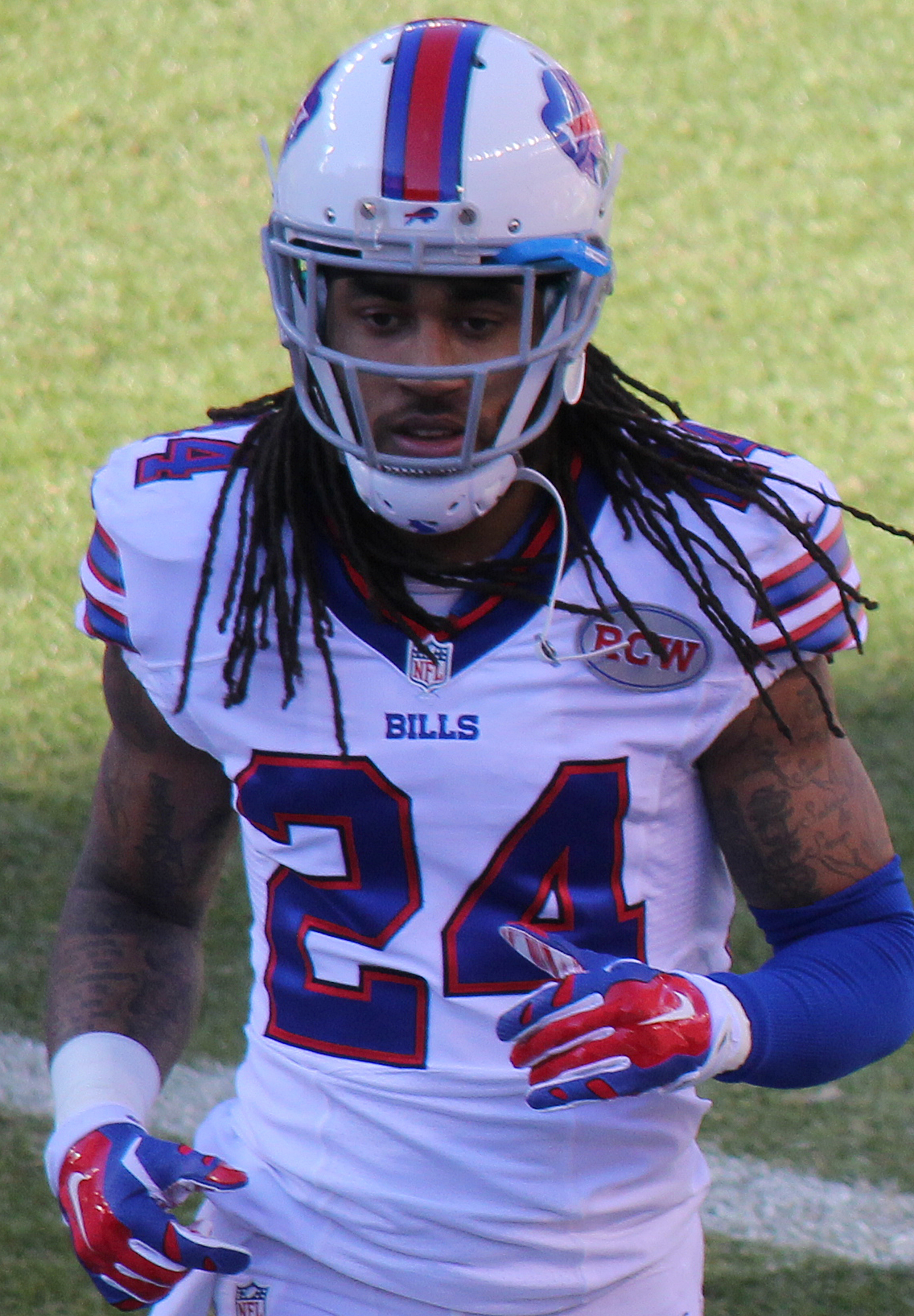 Stephon Gilmore, a player on the National Football League.